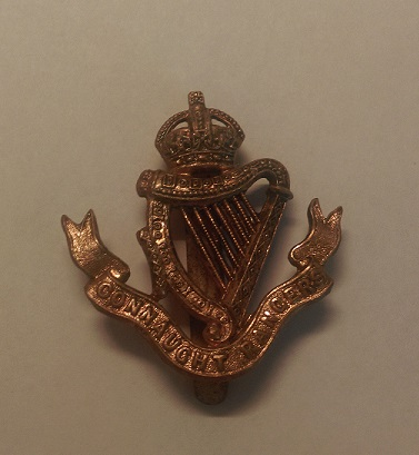 Photo of Connaught Rangers Cap Badge from personal collection